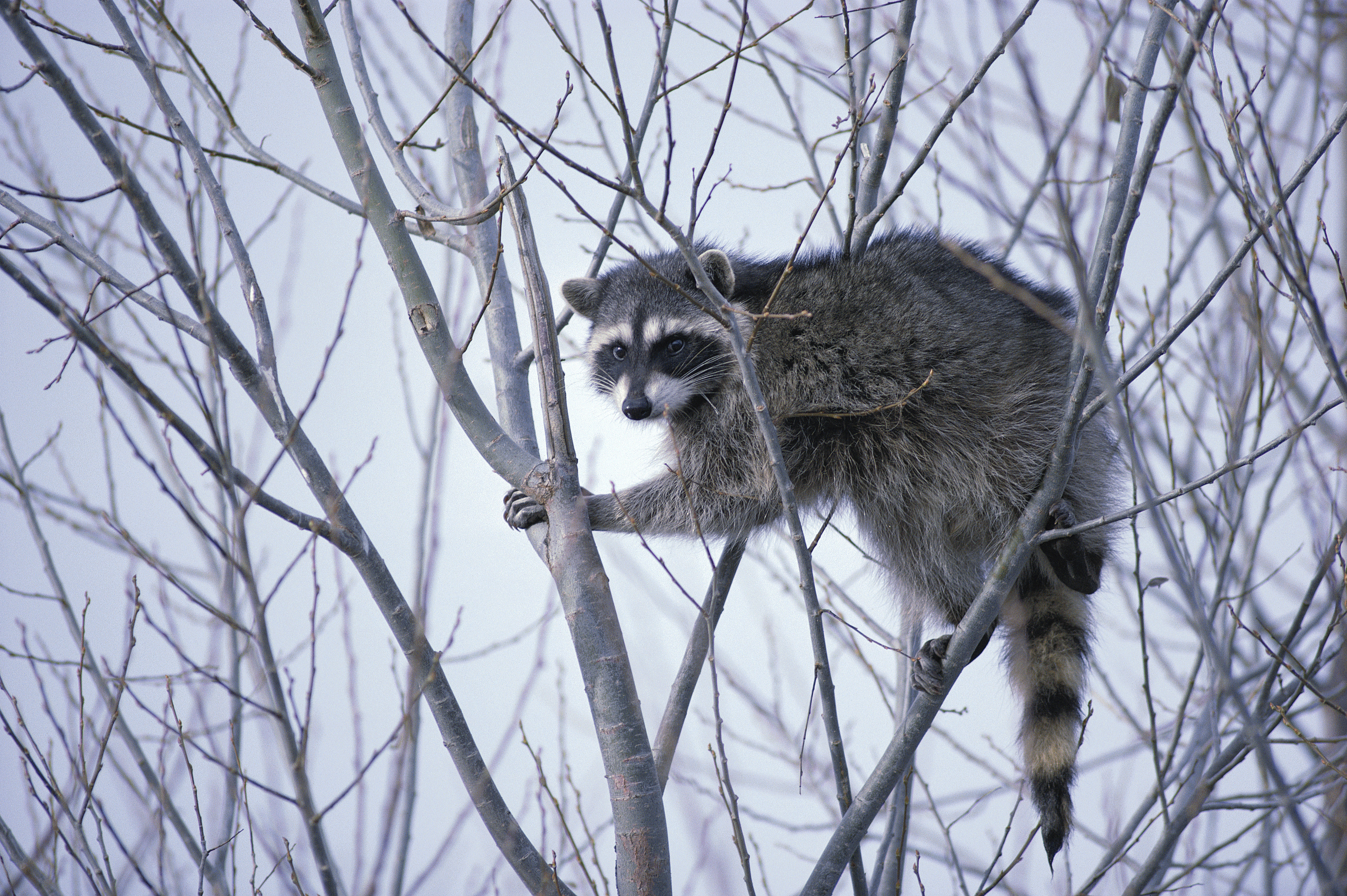 Raccoon photographed Lower Klamath National Wildlife Refuge in California